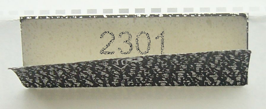 A personal identification number (PIN) concealed behind a paper flap on a letter. Fictional example derived from a real photo at File:PIN-Brief.jpg.